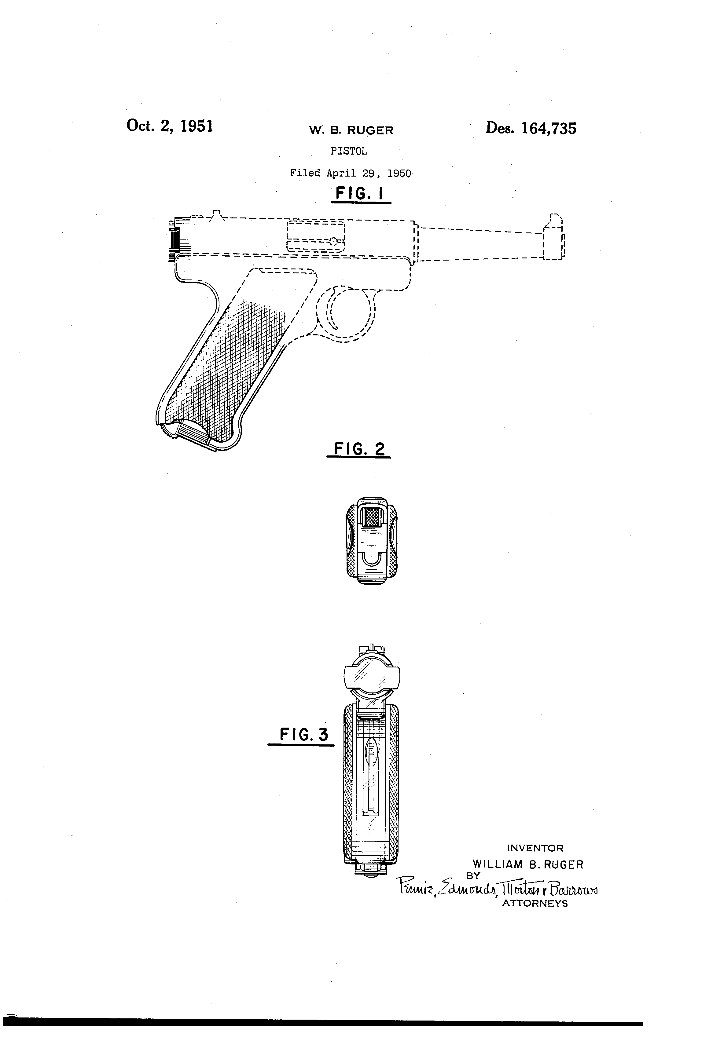 Fig. 1 is a side view of the pistol showing William B. Ruger's new design; Fig. 2 is a bottom view of the pistol showing the grip portion; and Fig. 3 is a rear elevation.